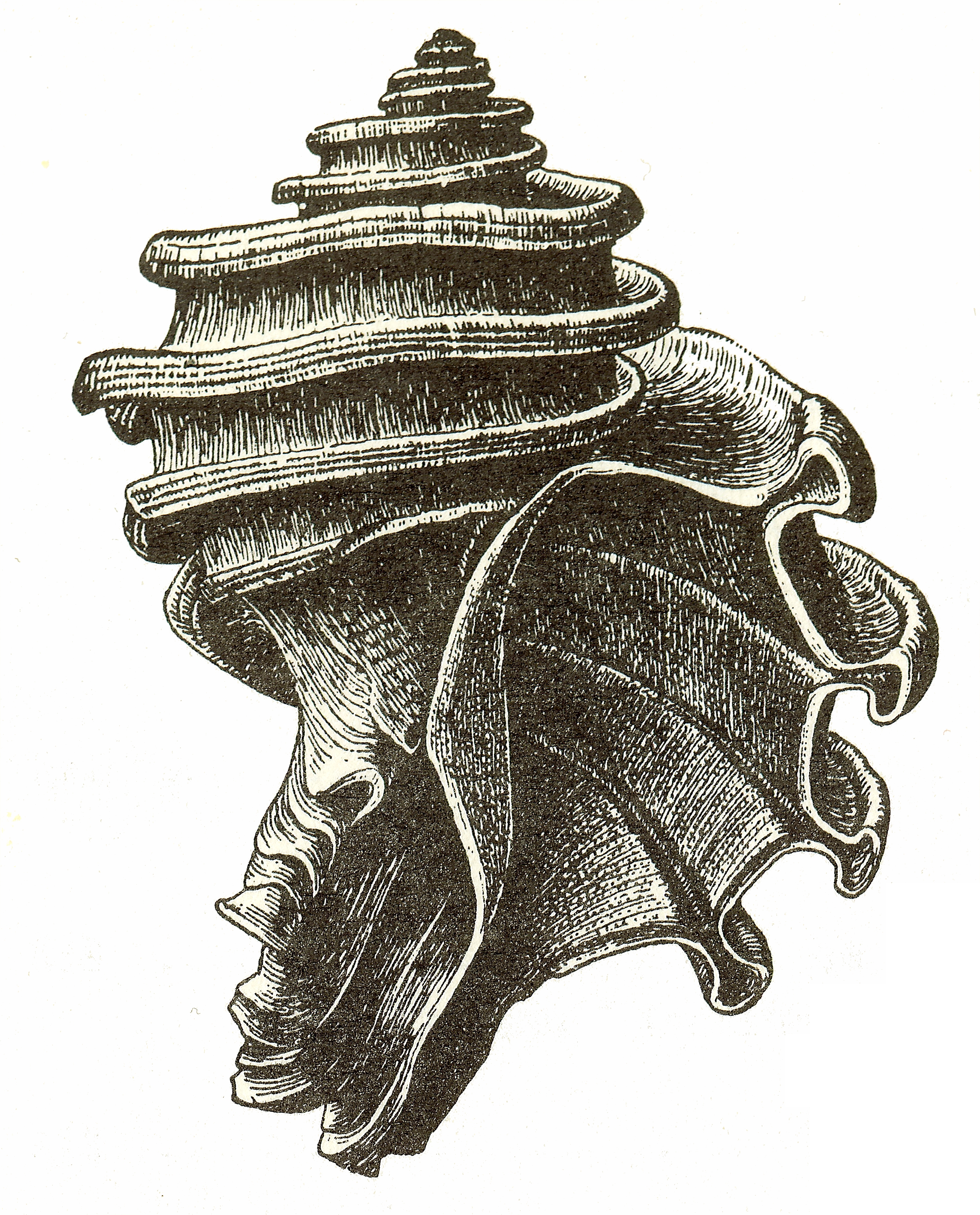 Ecphora gardnerae (formerly Ecphora quadricostata, that name now used for a Pliocene age species only) This is an image from a book published in 1904, Maryland Geological Survey, Miocene, by the Johns Hopkins Press. The illustration was by J.C. McConnell, who died in 1904 before the book was published. See text, p. xix.